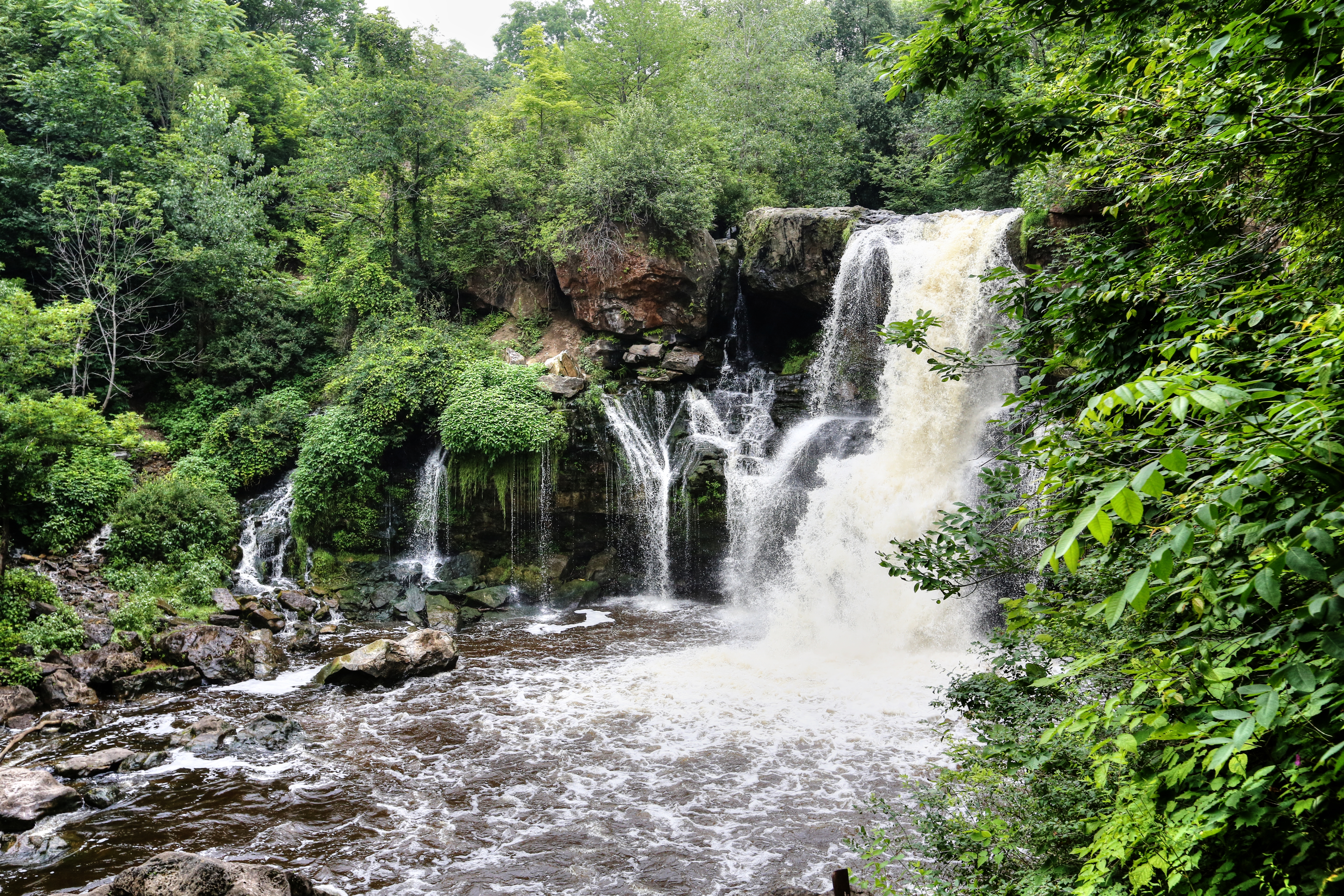 Akron Falls, July 3, 2013